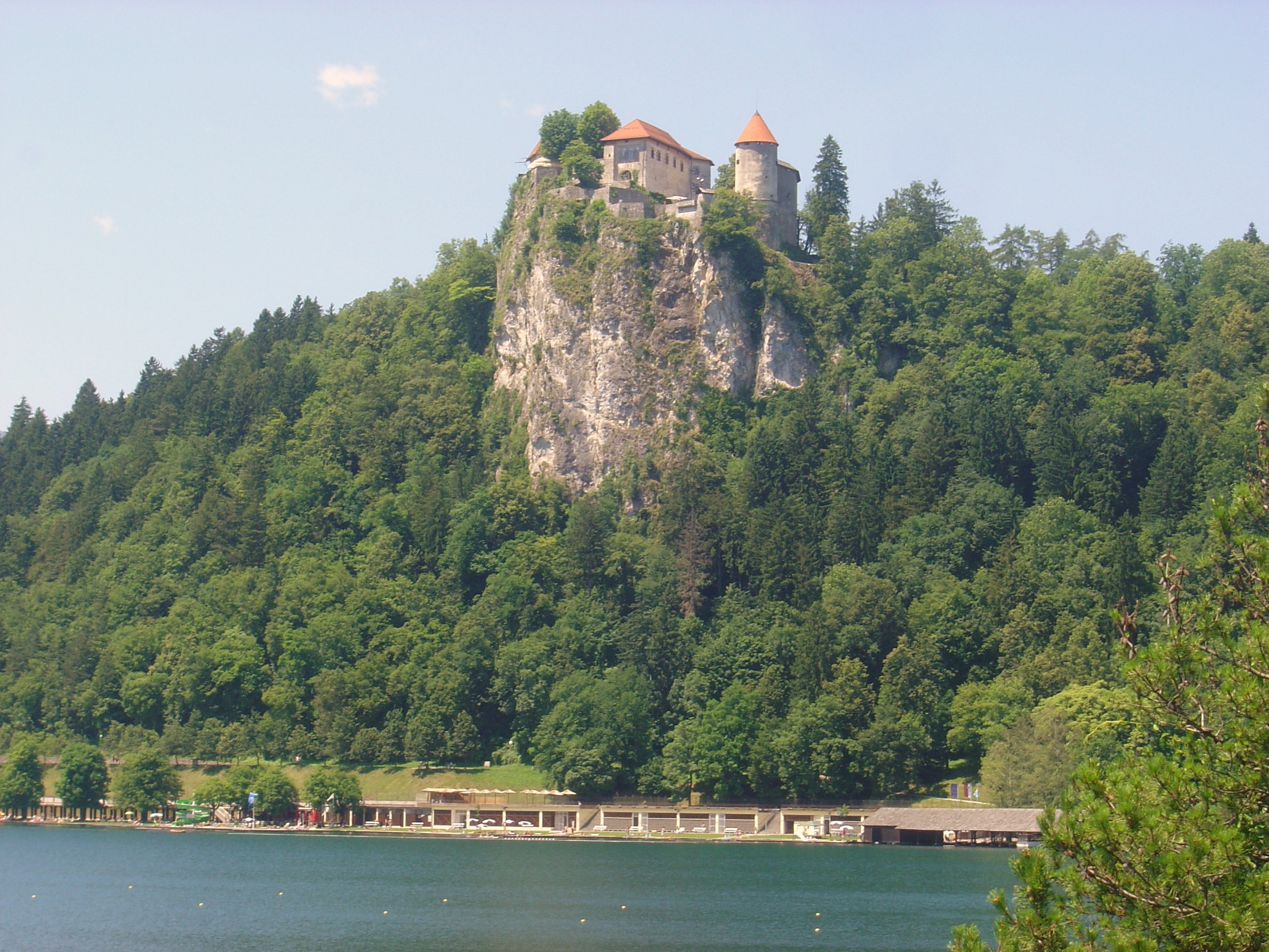 Bled, Slovenia